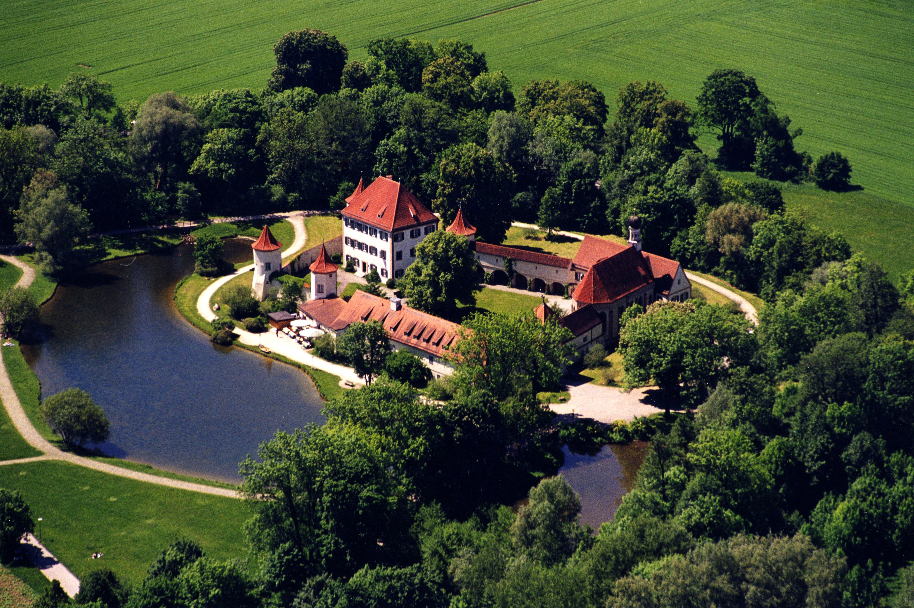 Blutenburg Castle, built in the 15th century, houses the International Youth Library since 1983.